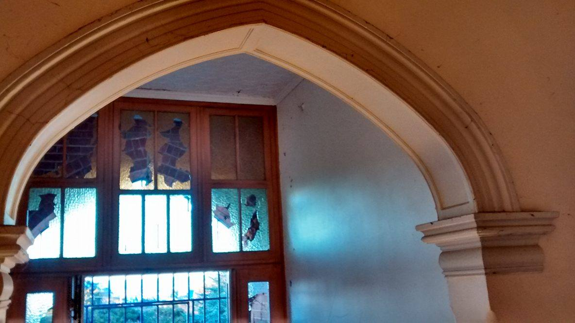 Orphanage entrance archway. Note damage inflicted on the glass in the background.